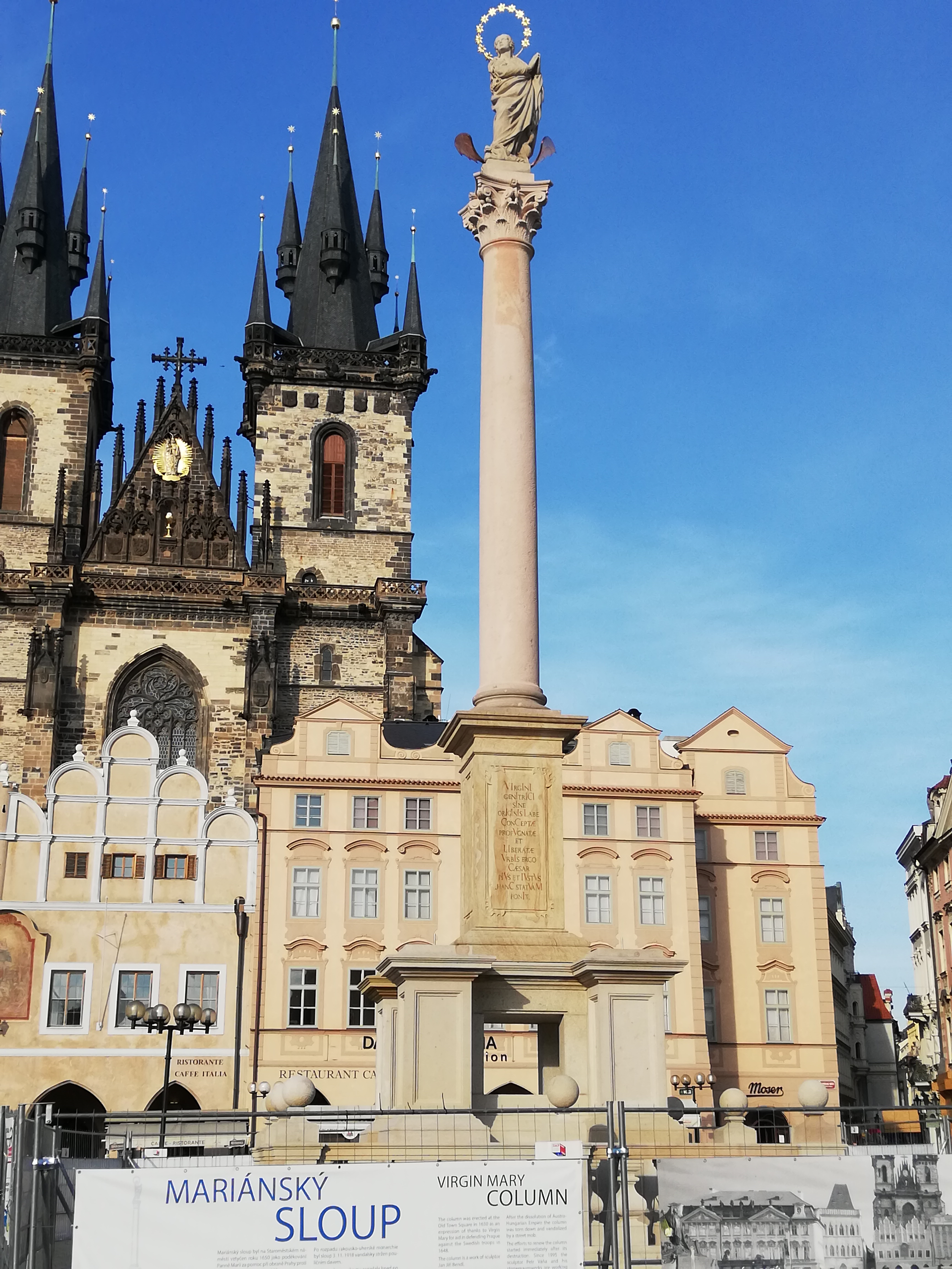 The newly restored Virgin Mary Column on Old Town Square in Prague